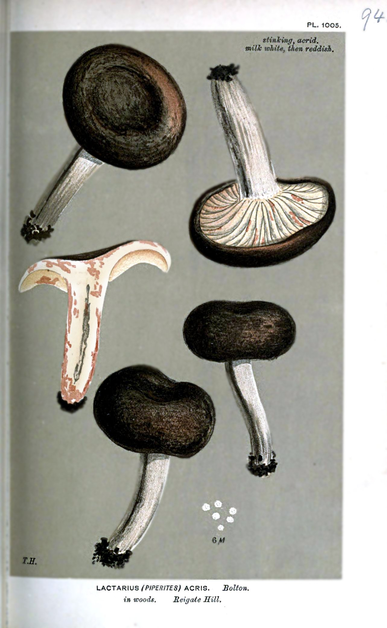 Illustrations of British Fungi (Hymenomycetes), to serve as an atlas to the "Handbook of British Fungi". by Mordecai Cubitt Cooke; Published 1881 by Williams and Norgate in London. (English). Plate 1005 Page 89 LACTARIUS (PIPERITES) ACRIS. Bolton; in woods. Reigate Hill.